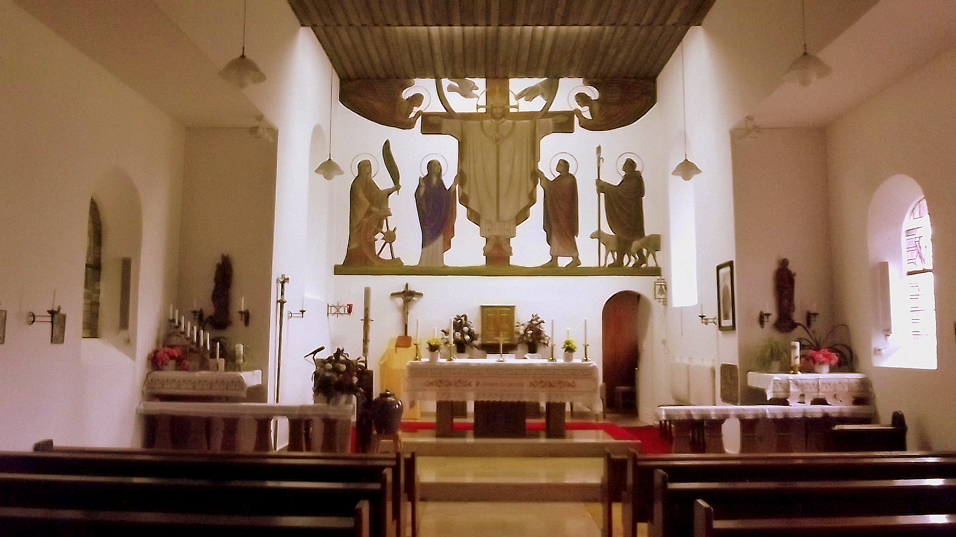 Interior of the roman catholic church in Hoof, Saarland, Germany